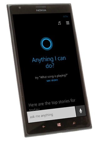 Cortana's start screen, in the classic colors.